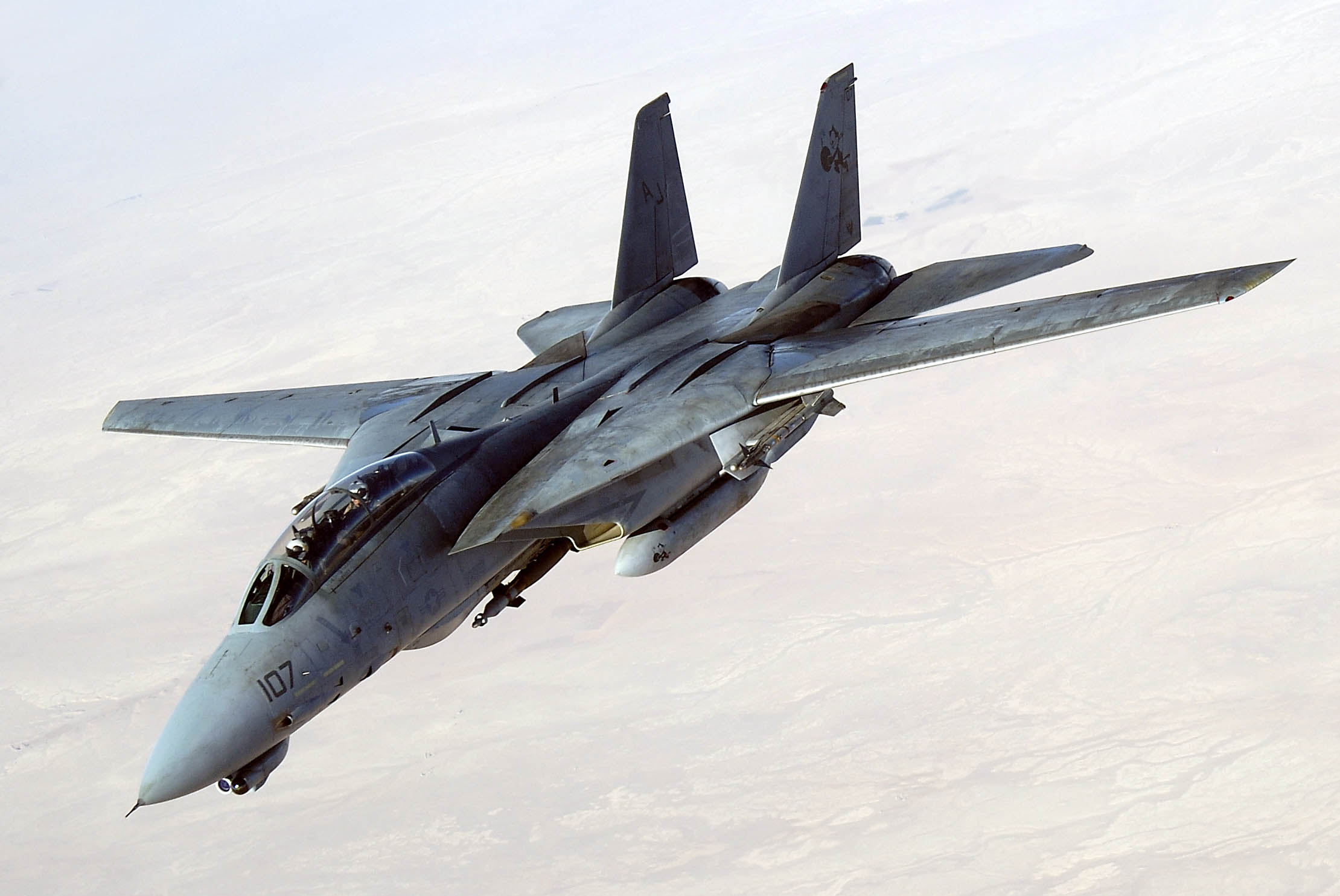 Persian Gulf (Nov. 5, 2005) – An F-14D Tomcat, assigned to the “Tomcatters” of Fighter Squadron Three One (VF-31), conducts a mission over the Persian Gulf-region. VF-31 is assigned to Carrier Air Wing Eight (CVW-8), currently embarked aboard the Nimitz-class aircraft carrier USS Theodore Roosevelt (CVN 71). U.S. Air Force photo by Tech. Sgt. Rob Tabor (RELEASED)